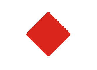 XXV Corps, Army of the James, Dept of Texas, 1st Division Badge